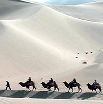 kumtagh Desert, China